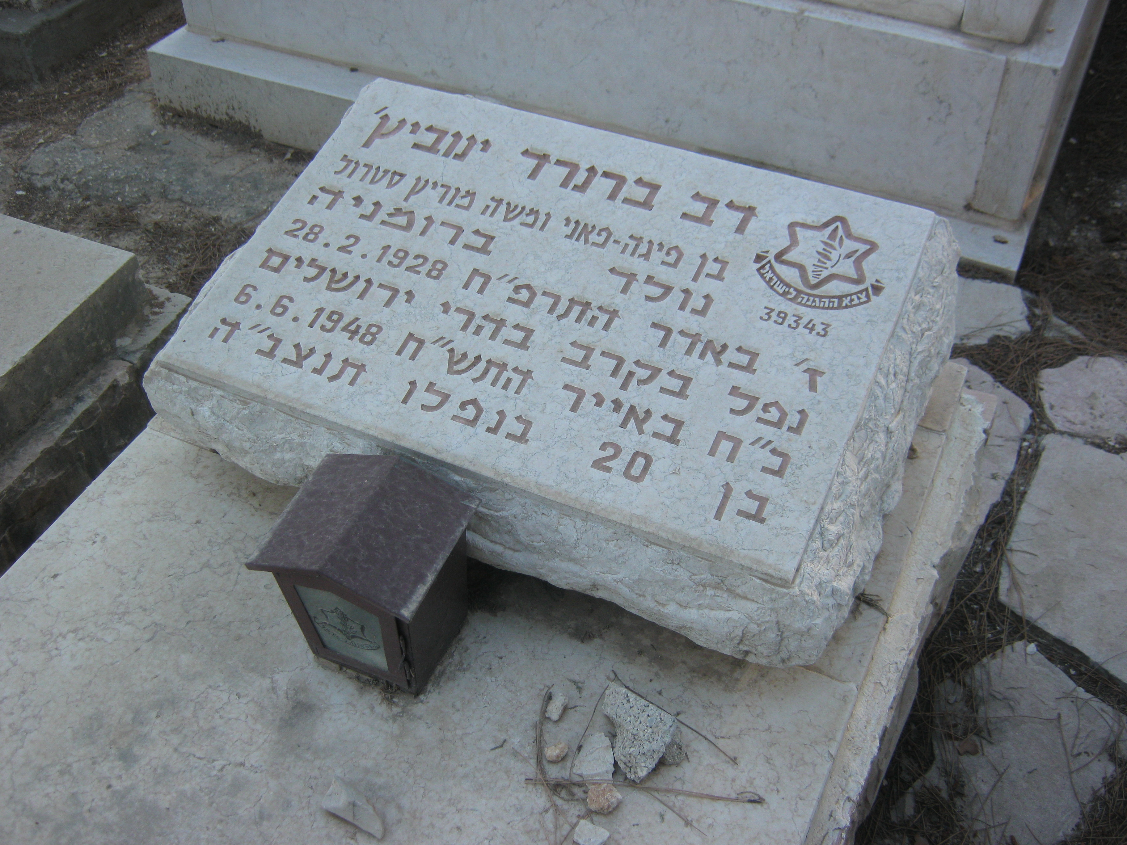 Headstone of Dov Ynovich at Har Hamenuchot Cemetery. His Gravesite was unknown until 2000